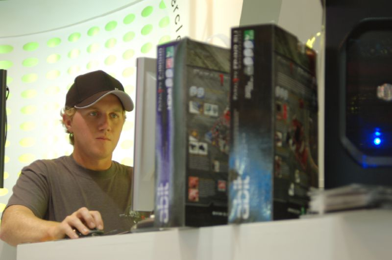 Johnathan "Fatal1ty" Wendel at the Computex 2007 (Taipei), for Abit promotion